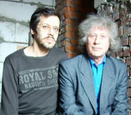 Ekimovsky, Viktor Alekseyevich, (b. Moscow, 1947). Russian composer & Yuri Khanon (b. Leningrad, 1965). Russian composer & canonic.